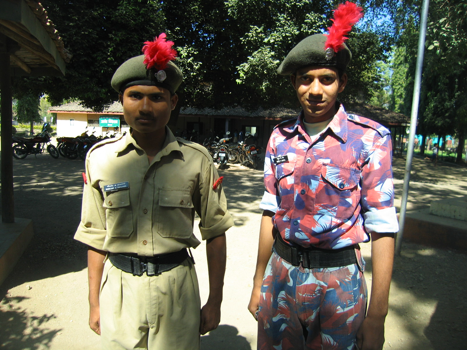 NCC Cadets in Army and Combat uniform.